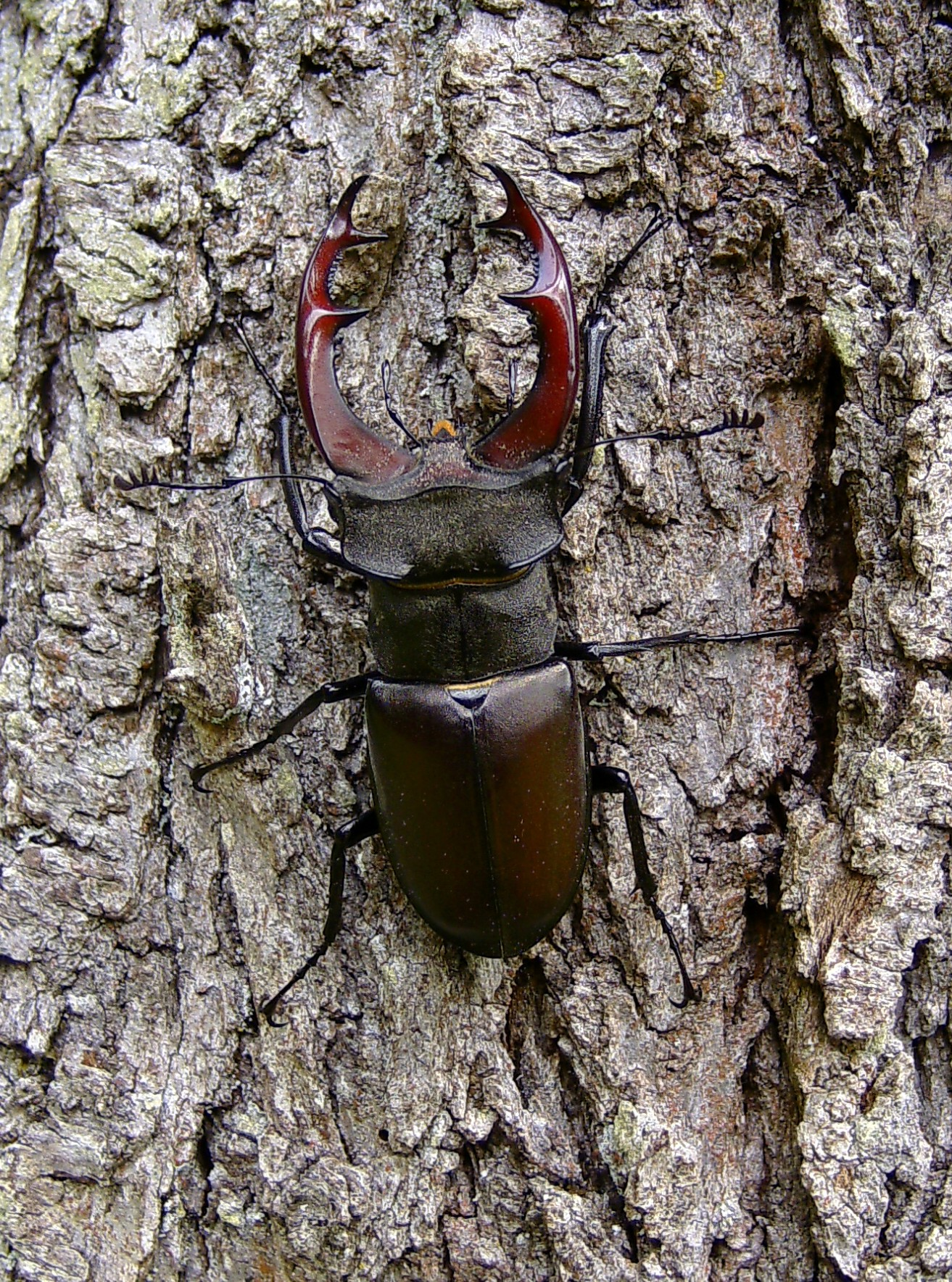 Lucanus cervus, 23.05.2015, Frankfurt